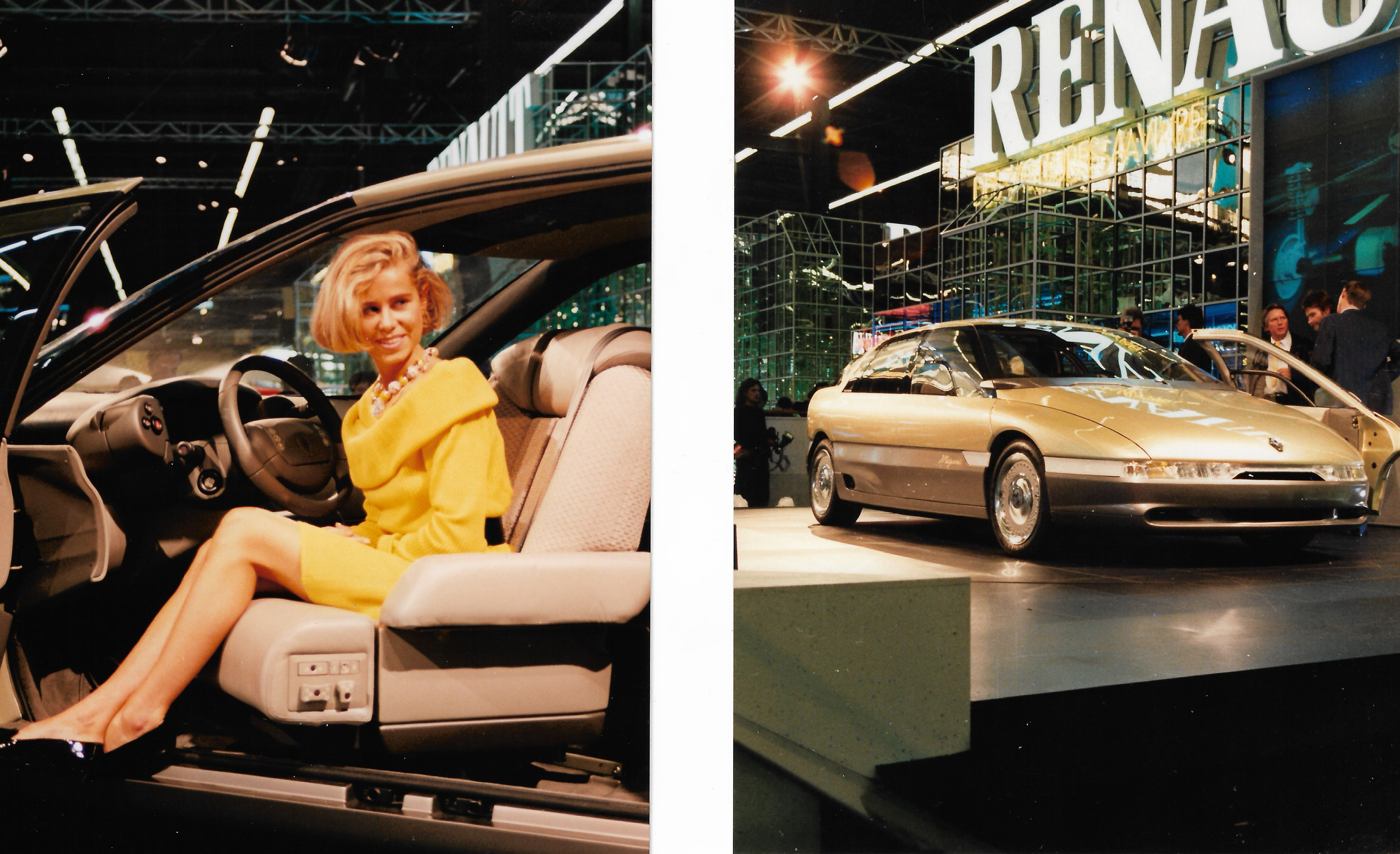 Renault Mégane concept car, Paris Motor Show 1988